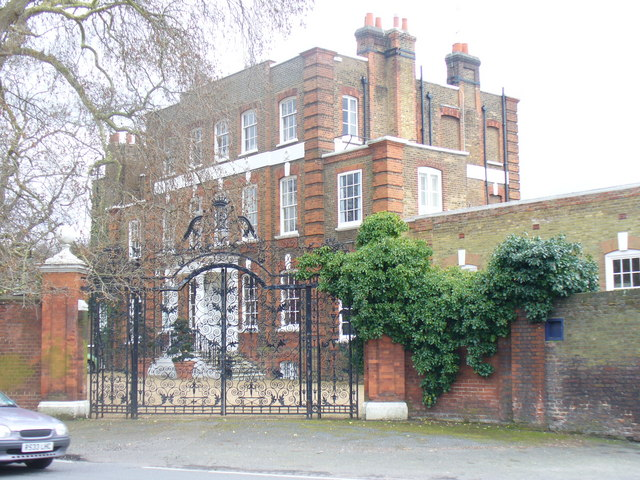 Montrose House One of many grand 17th and 18th century mansions in Petersham. This one was leased by the Duchess of Montrose from 1838.